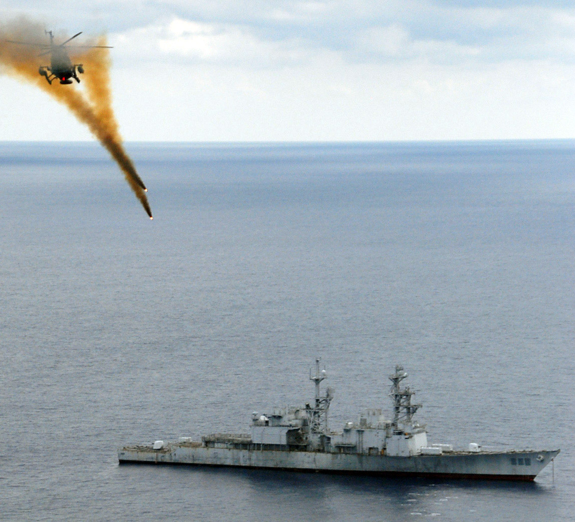 A Mexican navy Bo-105 Bölkow helicopter fires two 70 mm high-explosive rockets at the decommissioned Spruance-class destroyer ex-USS Conolly (DD 979) while under way in the Atlantic Ocean during a sinking exercise in support of UNITAS Gold.